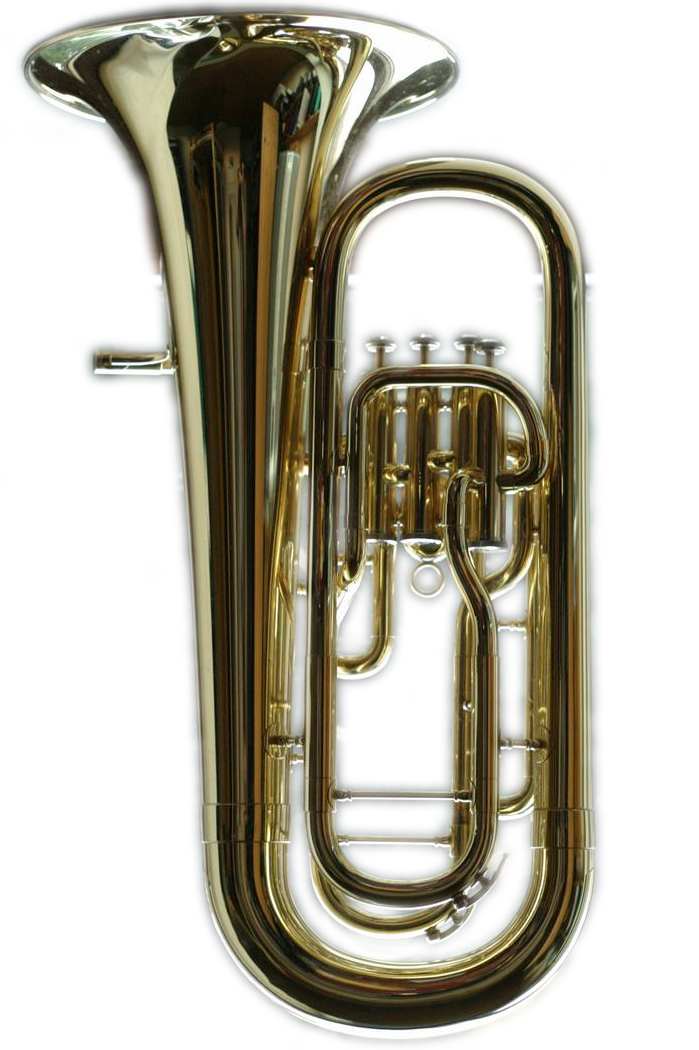 Euphonium B&S 3171A, four valve inline non-compensating instrument with damaged bell